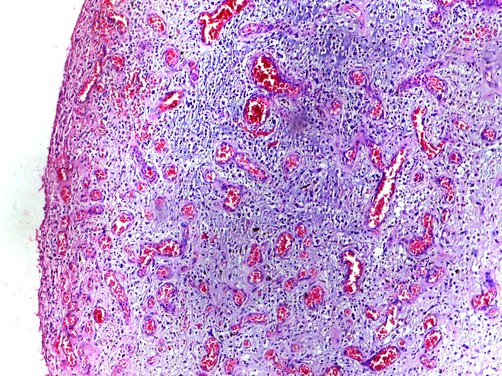 General pathology: Acute inflammation : showing proliferating capillaries, fibroblasts and acute inflammatory cells